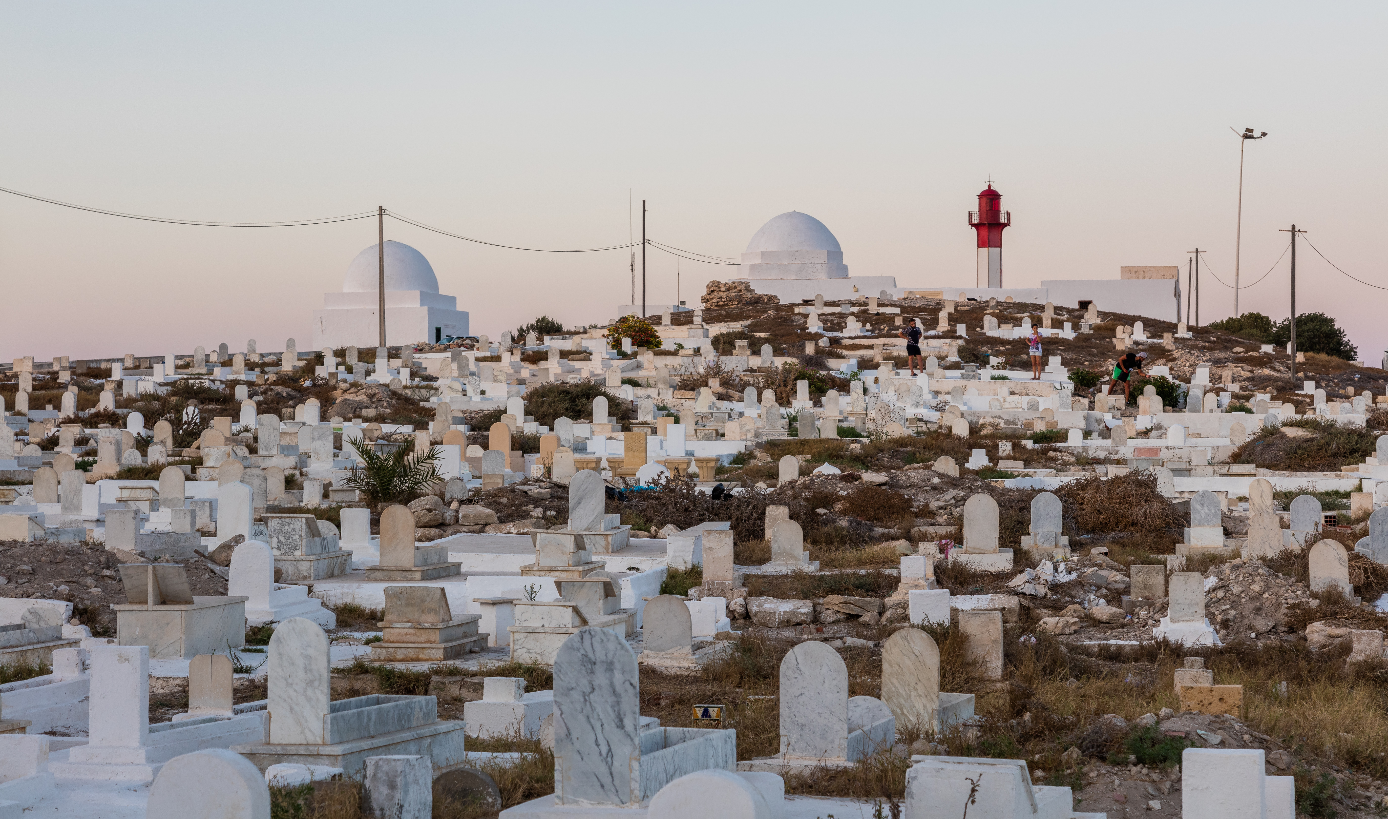 Marine cemetery, Mahdia, Tunisia